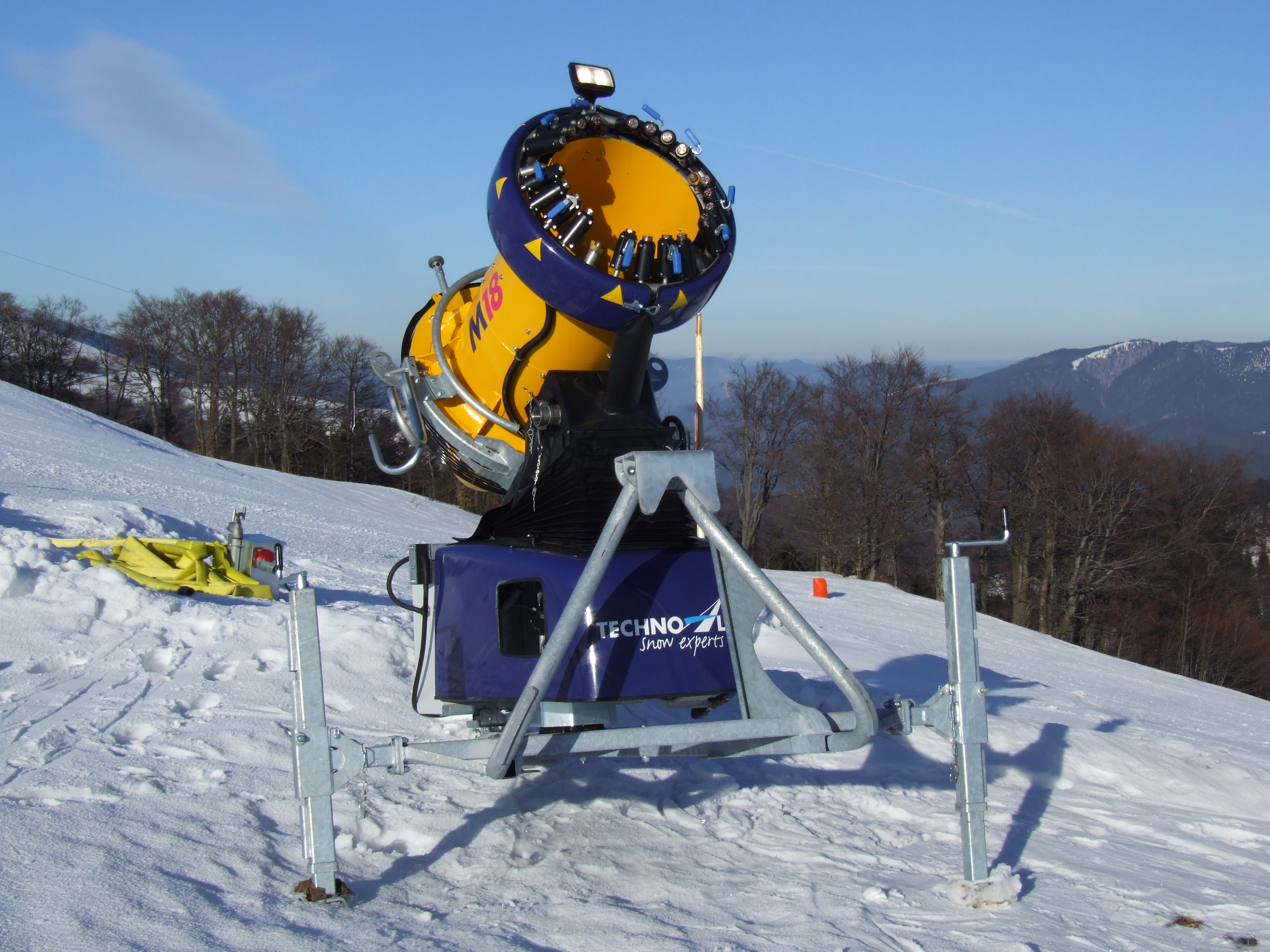 Snow cannon in Park Snow Donovaly, Slovakia